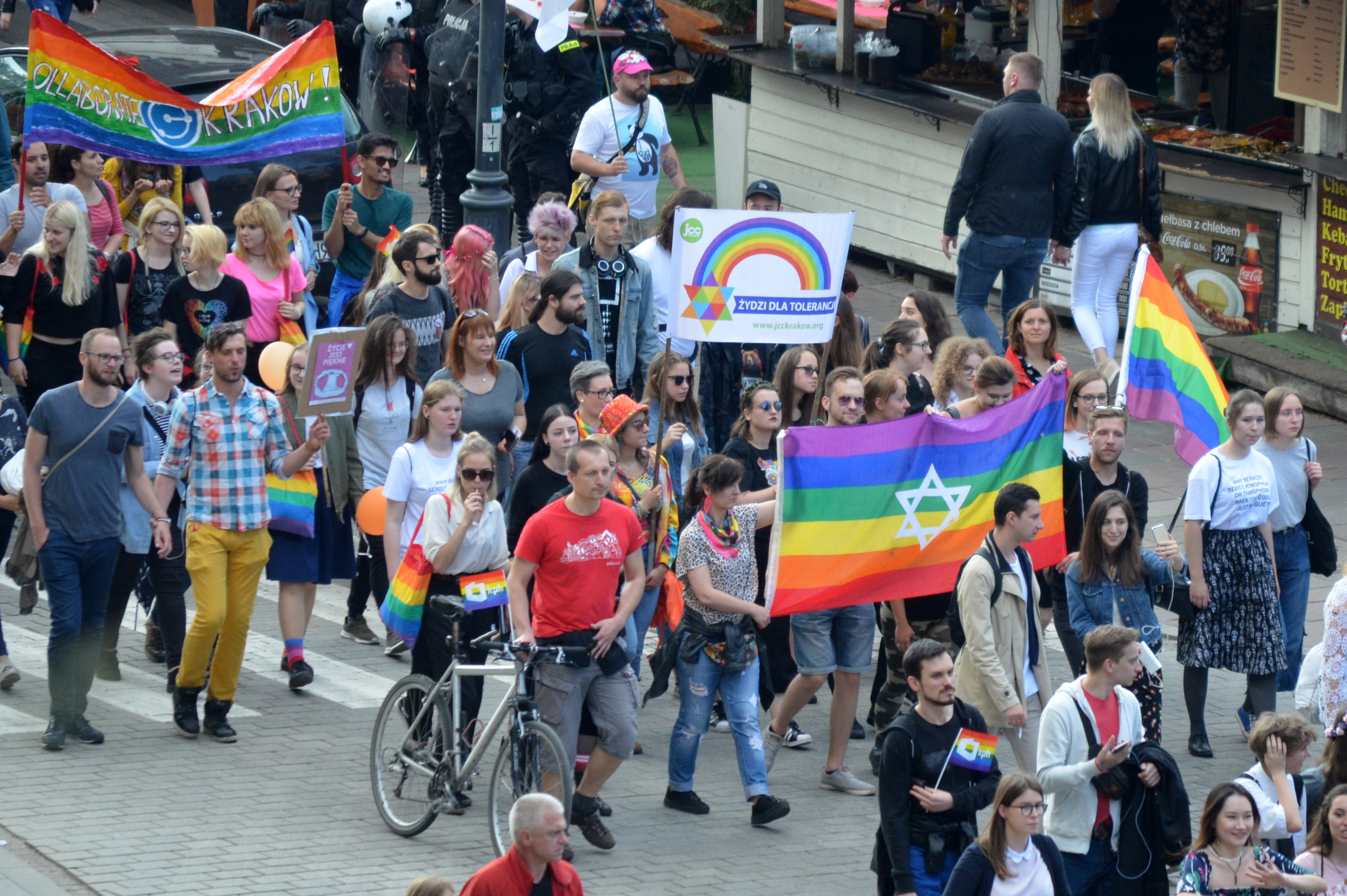 Das Queer Mai Festival 2018, die Kultur der LGBTQI in Krakau, Marsch der Gleichheit am 19. Mai 2018